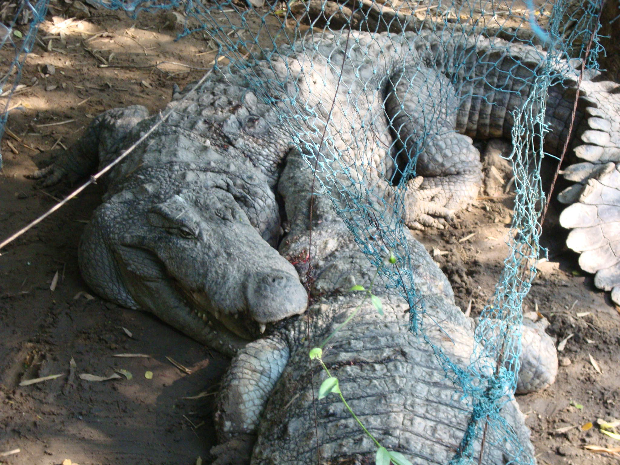 Indian Mugger Crocodiles fighting in Vandaloor Zoo, Chennai